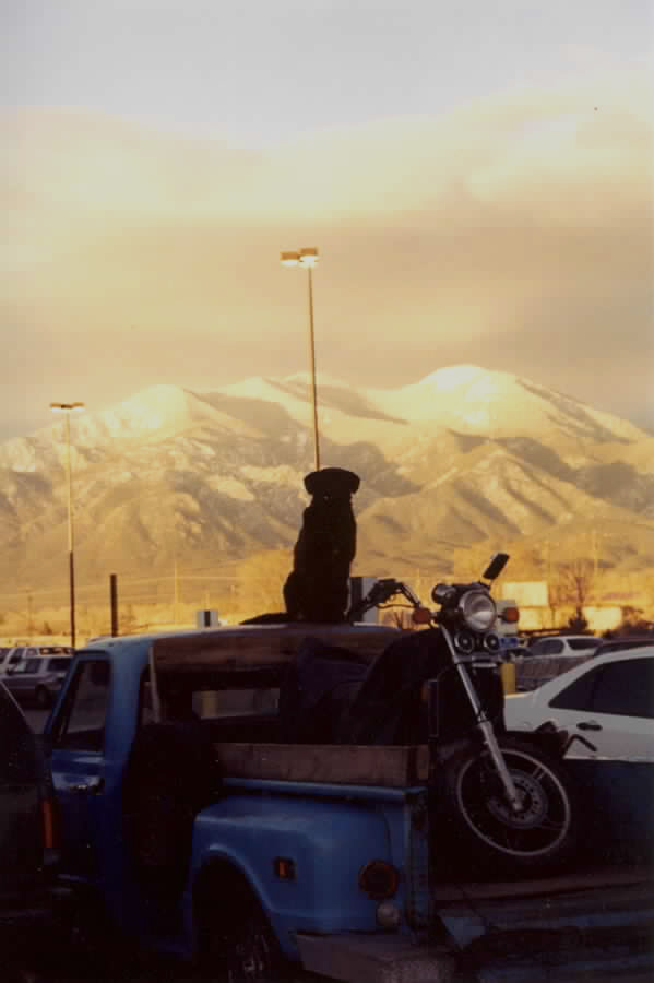 Taos, New Mexico * (del) (cur) 01:25, 30 November 2004 . . Carptrash (Talk) . . 599x900 (84,377 bytes) (photo by Einar Einarsson Kvaran GFDL Taos, NewMexico)